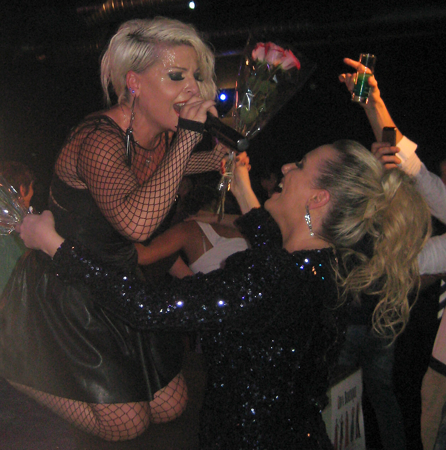 Aurela Gaçe at a performance in Zurich receiving flowers from Vesa Luma